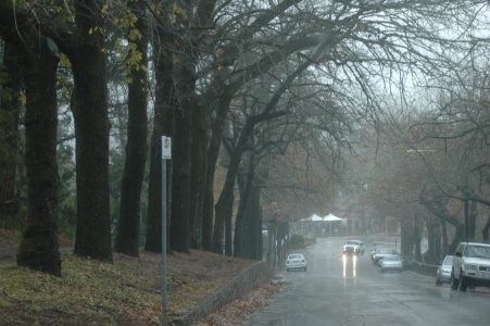 Druids Avenue, Stirling, South Australia, during autumn in the rain. This is not the main street of Stirling. (Author, Mel mazzone)